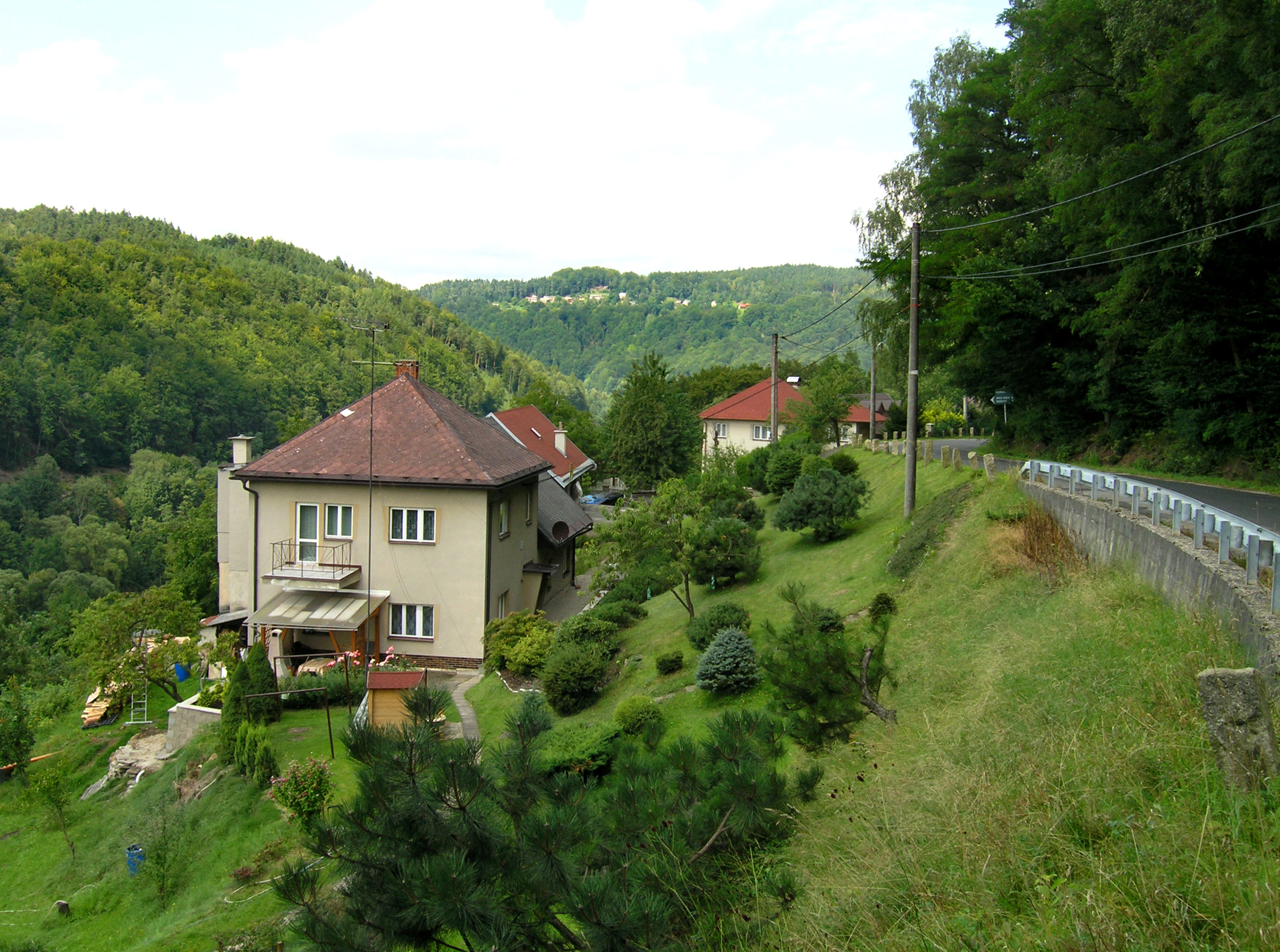 Rohliny, part of Mírová pod Kozákovem, Czech Republic